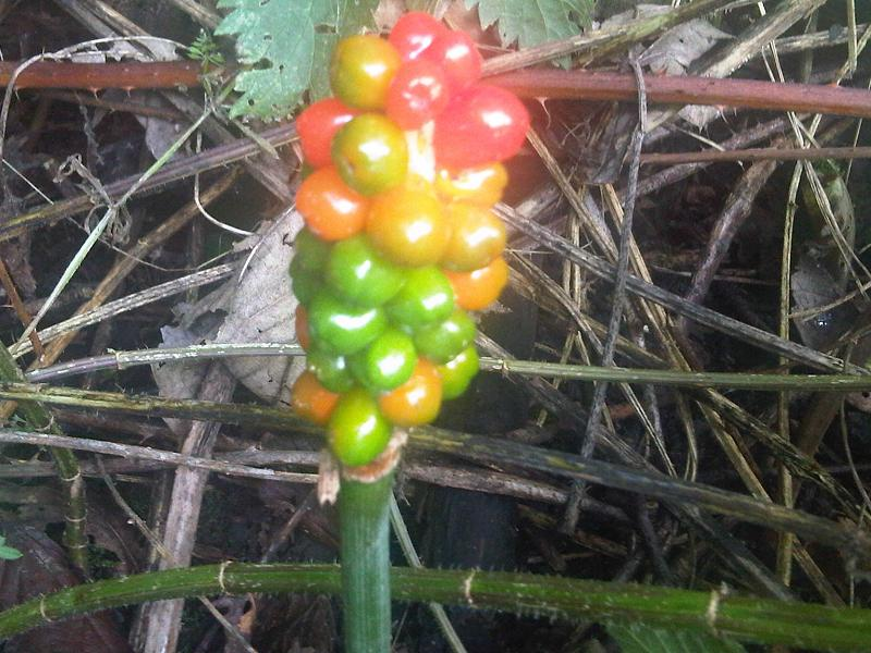 Wild arum (Arum maculatum) fruits in Putney Heath Common, England.